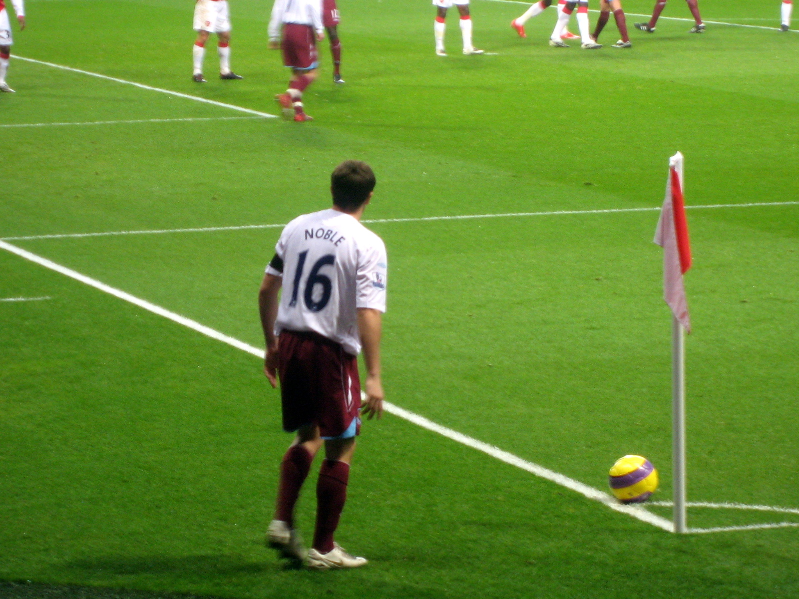 Mark Noble takes a corner against Arsenal